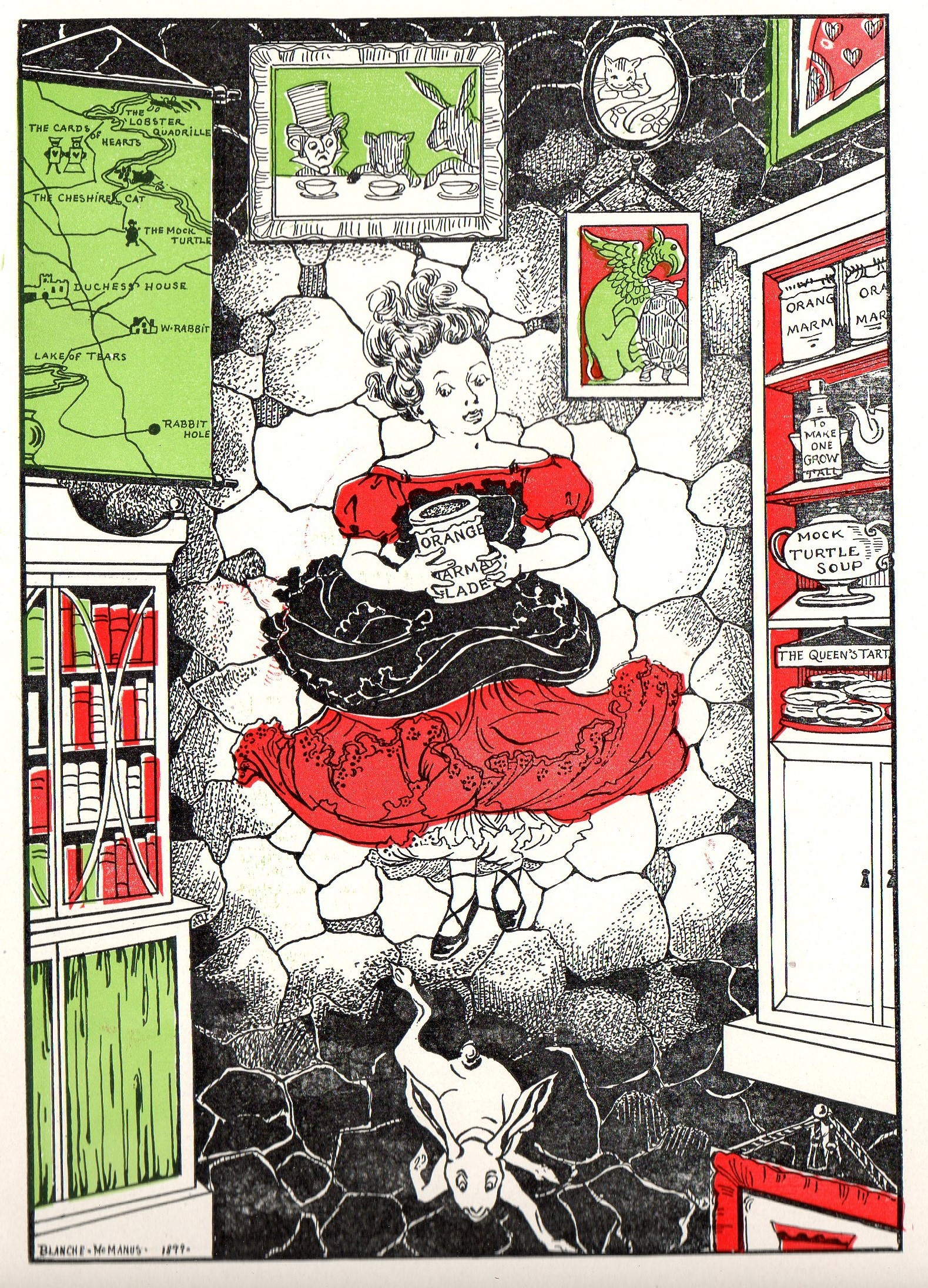 An illustration from the Blanche McManus edition of Alice in Wonderland Other information an early illustration relevant to the article